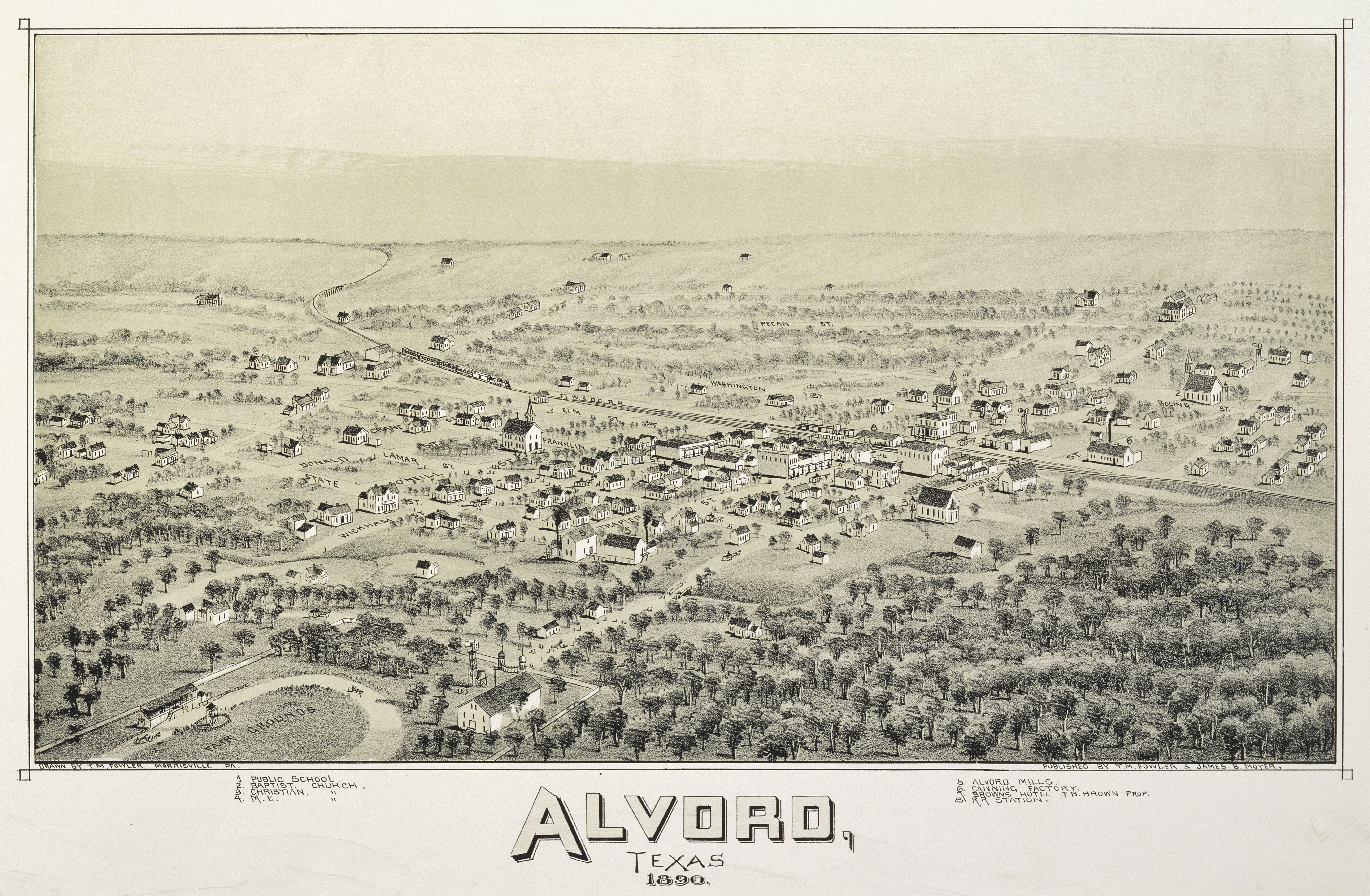 Alvord, Texas in 1890. Alvord, Texas 1890, 1890. Toned lithograph, 9.9 x 17.2 in. Published by T. M. Fowler and James B. Moyer. Amon Carter Museum, Fort Worth.